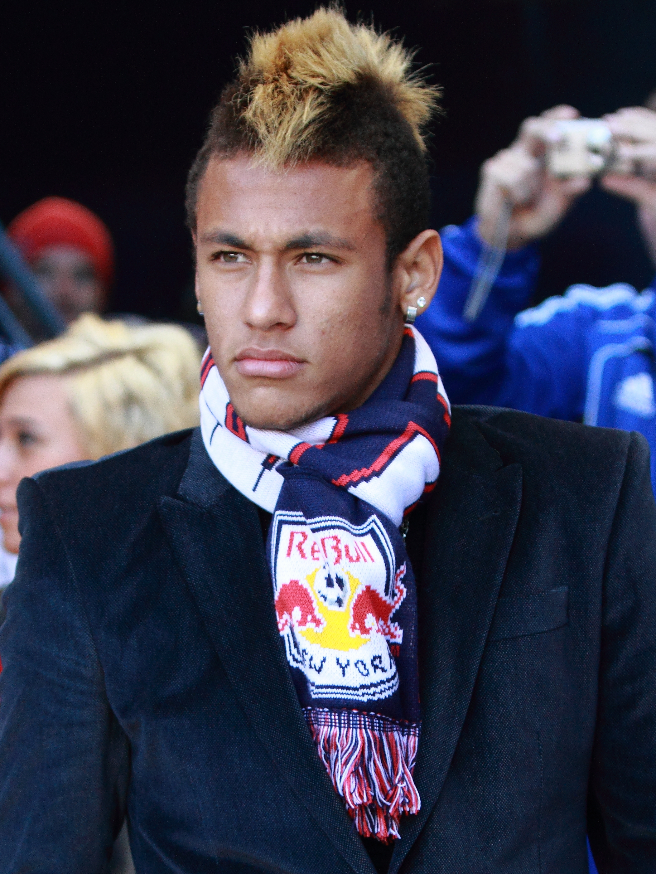 Brazilian footballer Neymar at Red Bull Arena in Harrison, New Jersey to watch a Major League Soccer match between New York Red Bulls and Los Angeles Galaxy.